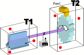 Schematic figure of a Brownian ratchet (Feynman-Smoluchowski ratchet), a simple hypothetical mechanism used in a thought experiment by Marian Smoluchowski and Nobel laureate Richard Feynman to demonstrate the laws of thermodynamics. The device is a tiny paddlewheel attached to a ratchet. It appears to be an example of a Maxwell's Demon, able to produce useful work from the random thermal motion of molecules at a constant temperature in violation of the Second Law of Thermodynamics. Feynman and others showed why it cannot actually produce work if T1 = T2